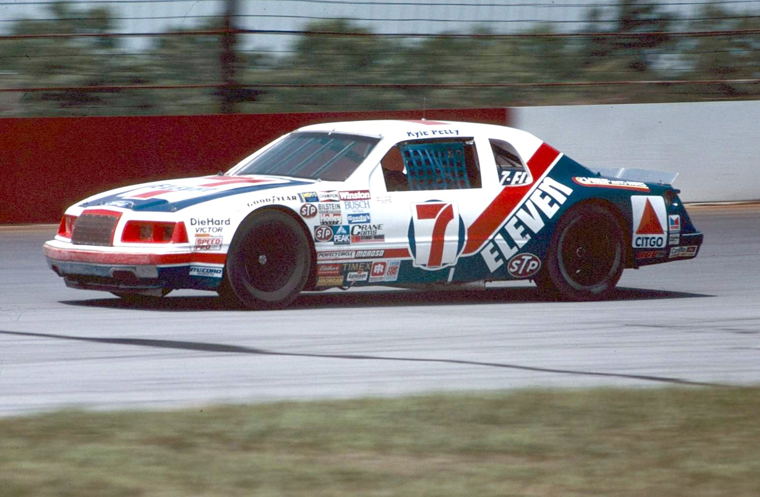 Kyle Petty drives the Wood Brothers' No. 7 7-Eleven Thunderbird in 1985.